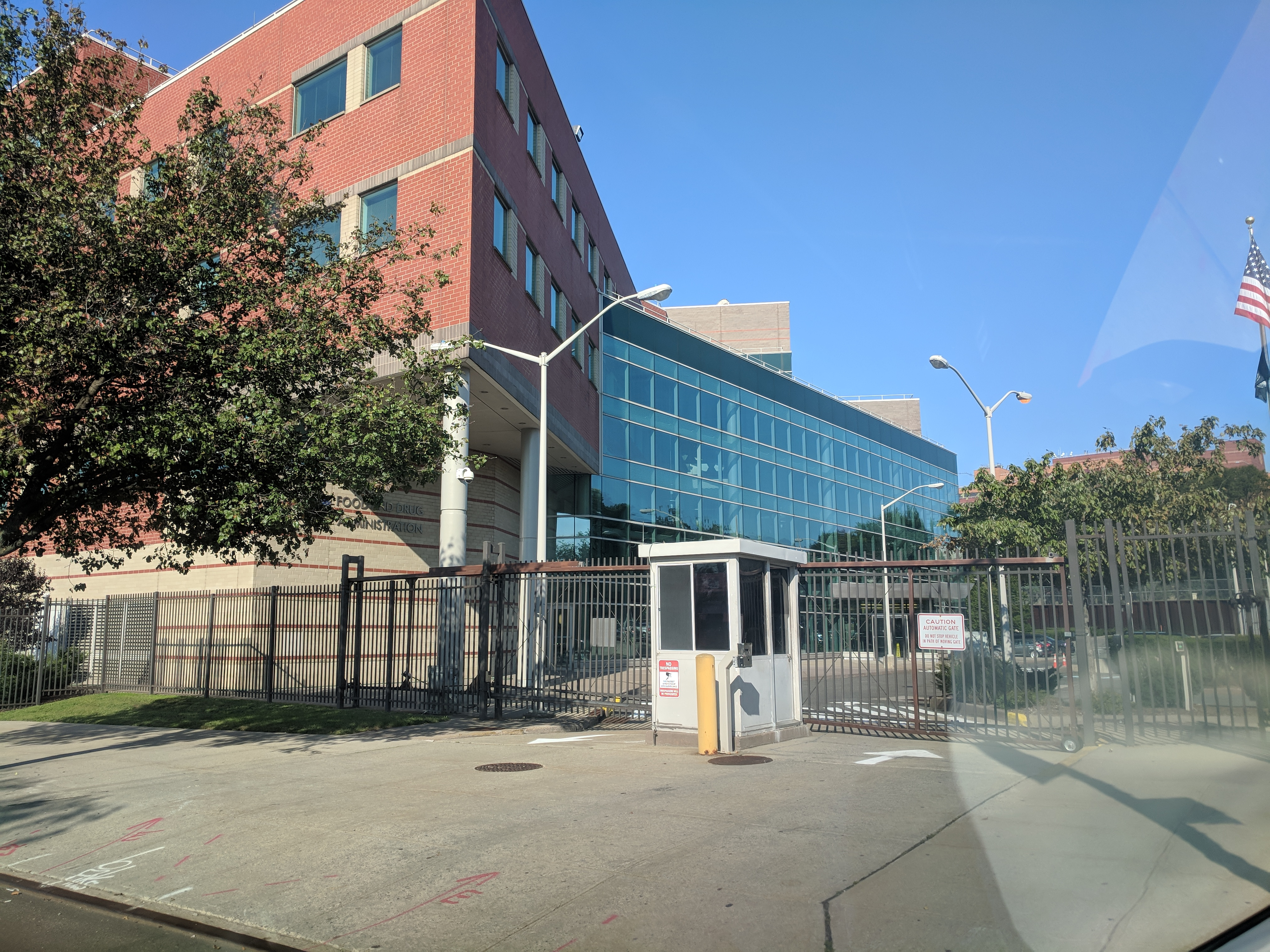 FDA New York field office, Office of Regulatory Affairs